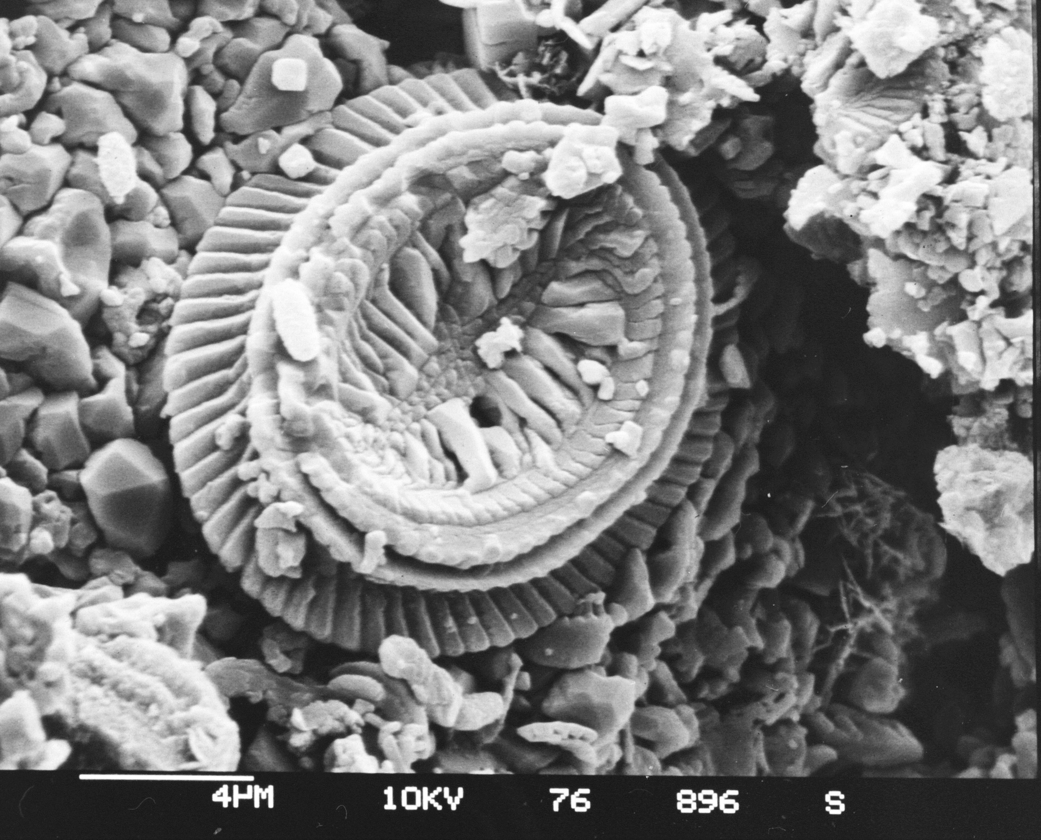 Coccolith preserved in Arnager Kalk (“Arnager Limestone”) from the Upper Cretaceous of Bornholm, Denmark (SEM photo).